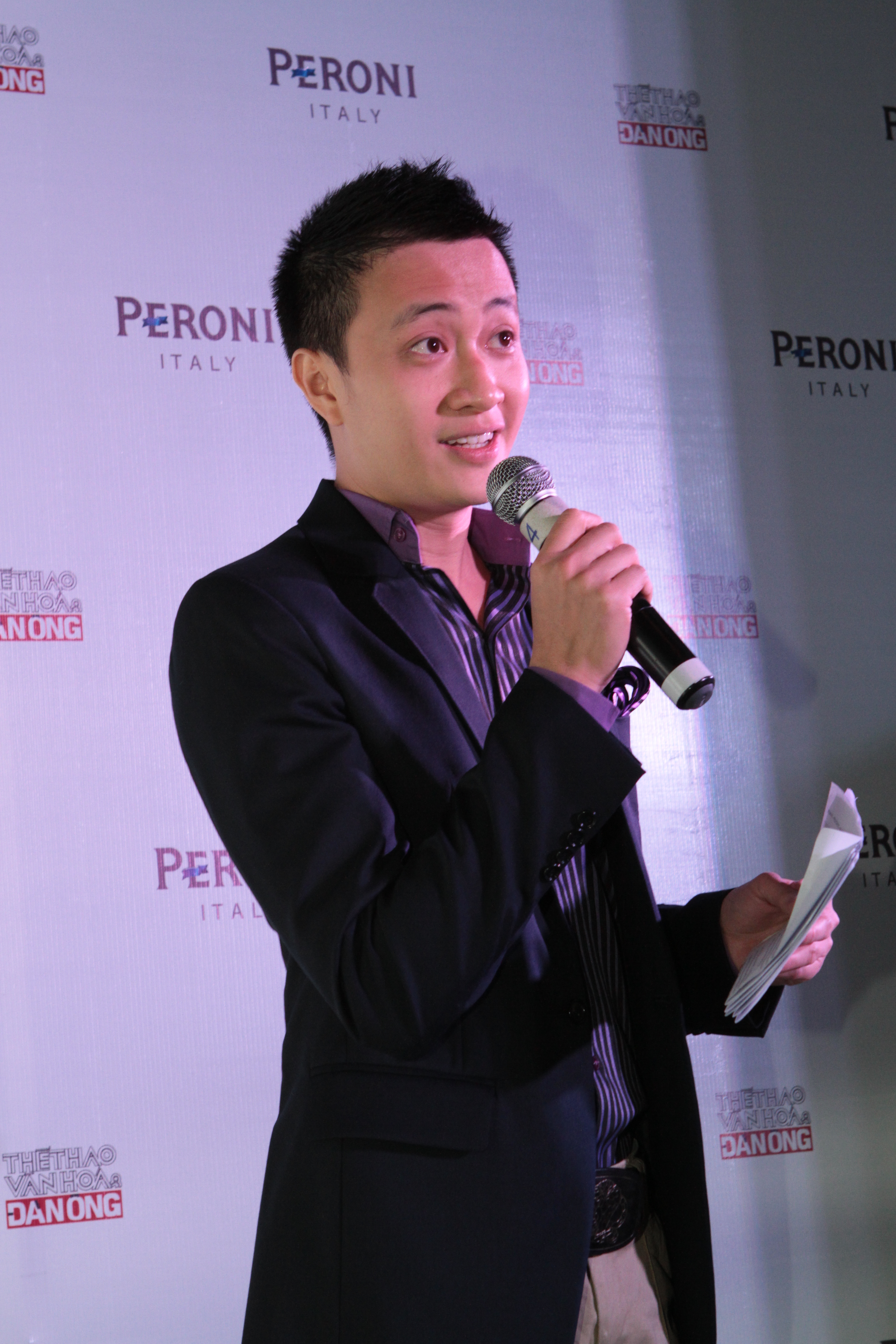 Tonight I shot an event for Asia Life and guess who was the MC. One of my favorite Vietnamese actors, Lương Mạnh Hải. He was looking fashionable tonight at the event promoting Italian beer, Peroni, and featuring Italian photography. You might know this guy from the recent Vietnamese hit film "Lost in Paradise".